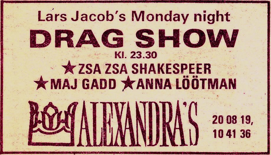 Lars Jacob's Monday Night Drag show advertisement in Expressen for show at Alexandra's featuring new trio of performers Zsa Zsa Shakespeer, Maj Gadd and Anna Löötman, ad designed and paid for by LJPPlace: Alexandra's, Biblioteksgatan 5, Stockholm, Sweden